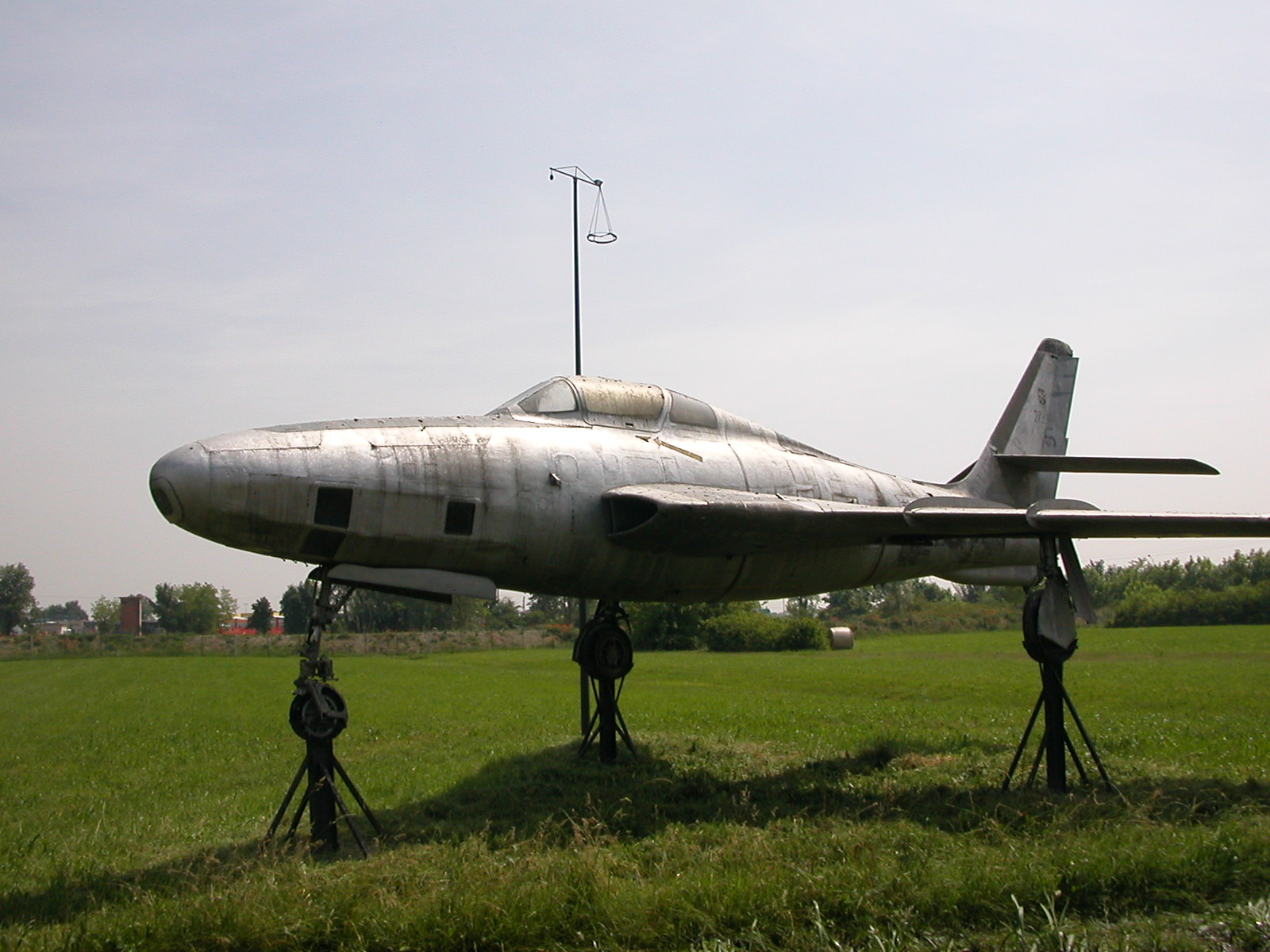 Republic RF-84 Thunderflash, front-left view, gate guardian in San Pelagio Air and Space Museum, (Padua)